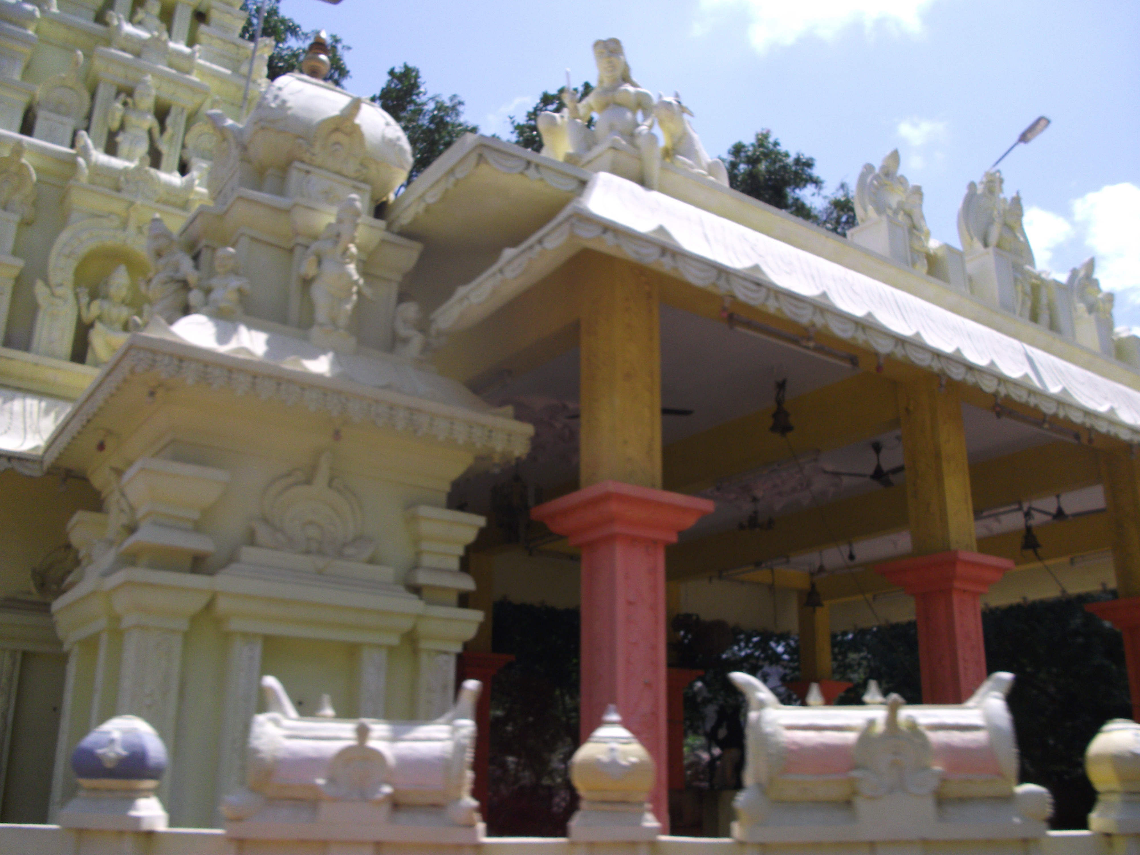 sudalai madasamy temple is famous temple in narth sarel. it is 12 KM away from nagercoil